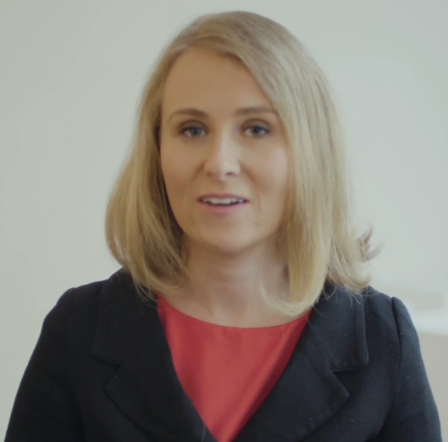 English politician Alexandra Phillips from a video urging support for the South East Greens in the European elections. Please support the South East Greens in the European elections. In the European elections it's essential we keep our Green MEP seat in the South East. Please give today to keep us in Europe. Visit